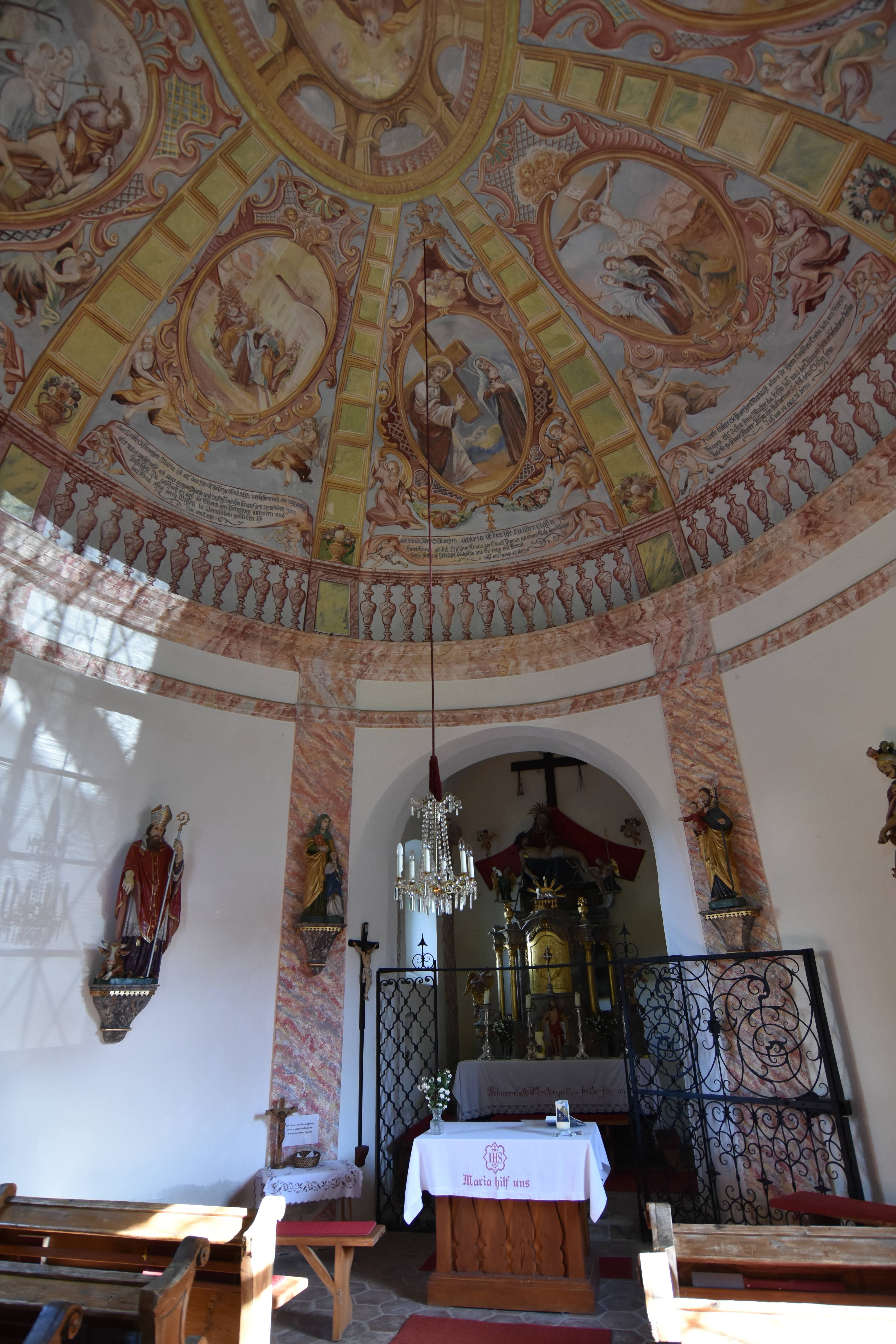 Church Kirche Schmerzhafte Mutter, Auffen Interior